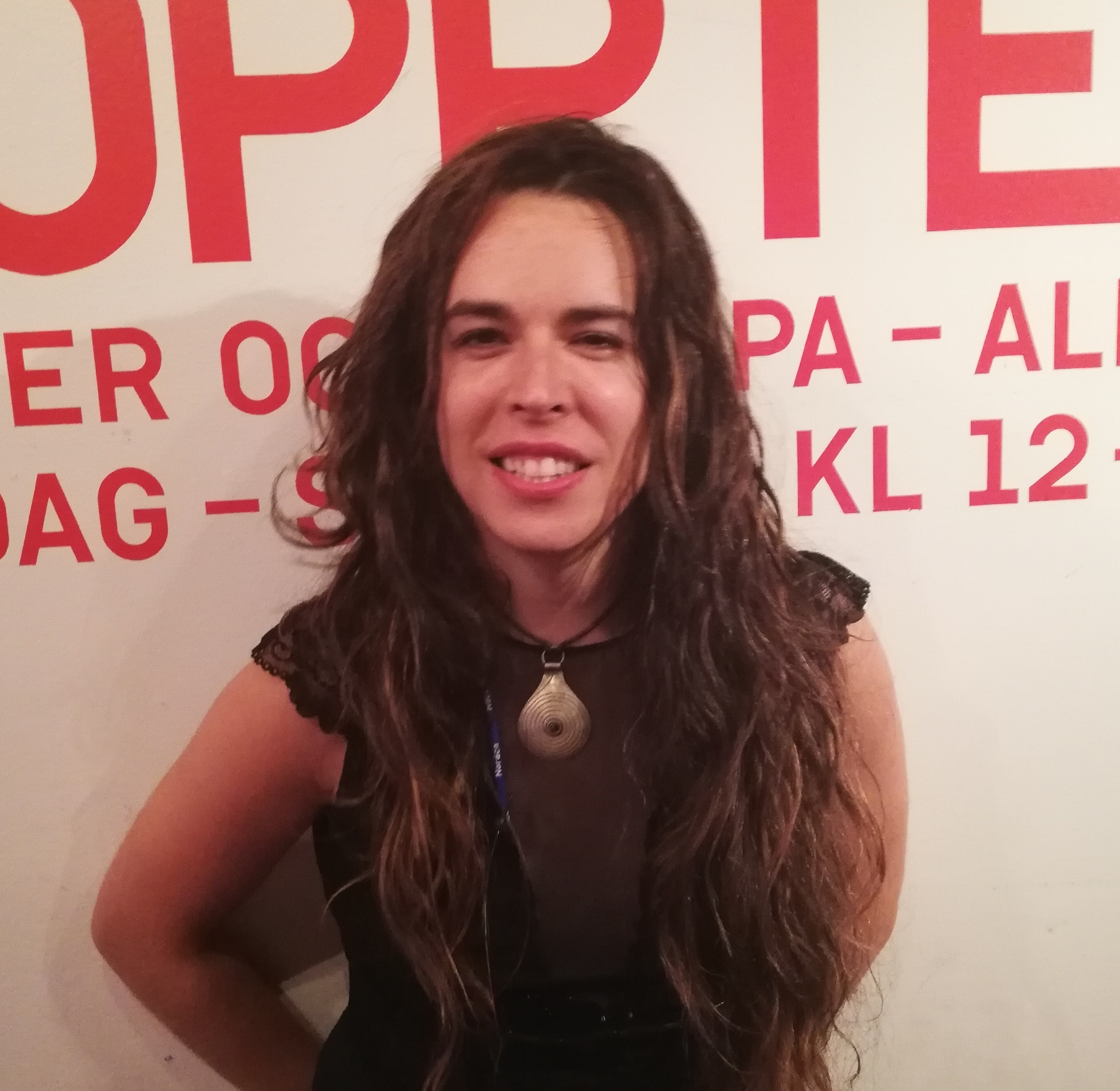 Spanish politician Aitzole Araneta at Europride in Stockholm